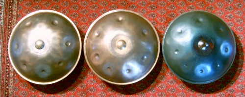 Three Hanghang built 2007, 2006 and 2005 (from left to right)